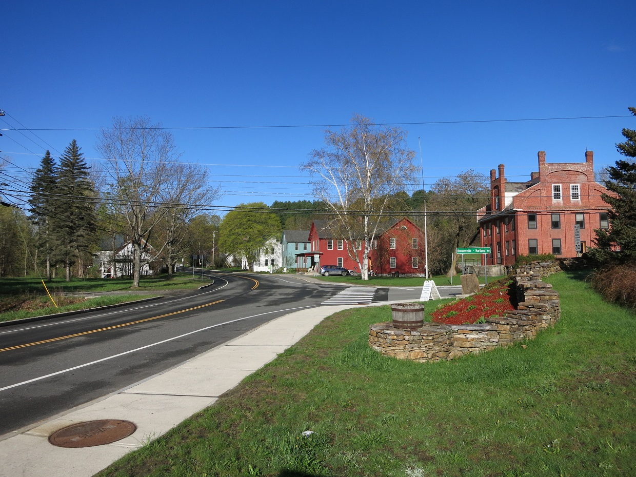 Photo shows the intersection of Vermont Route 44 with the Brownsville-Hartland Road. View is toward the west.